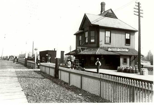 This train station in what is now Toronto, but was then Parkdale. Original caption: "CPR ex CVR North Parkdale station built 1879, seen here on August 15,1898. J.W.Heckman/Canadian Pacific Corporate Archives A20578."